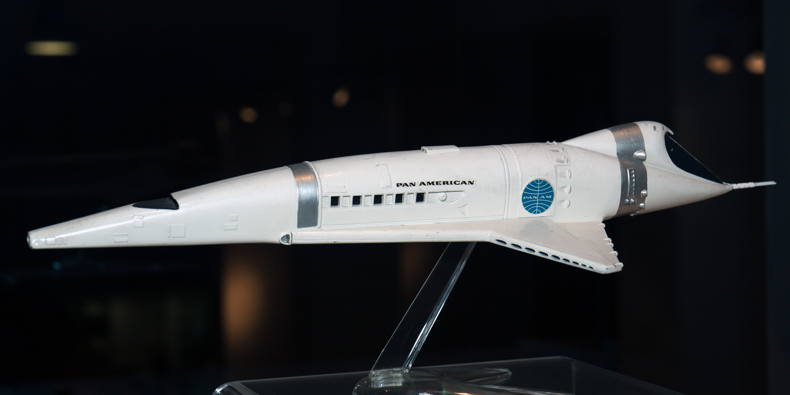 Orion III model